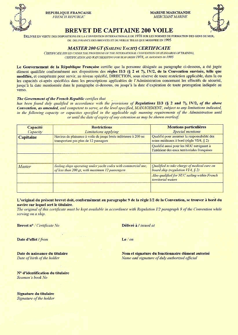 Master 200 GT sailing yacht certificate, professional title for the conduct(driving) of pleasure boats. Allows against service (performance) the conduct(driving) of yacht of rent with crew (equipage), cruise yacht the demand (request), the yacht of strolls of the passengers, the excursion, the yacht of discovery of the sea of the navigation (browsing) ...